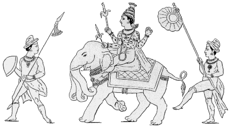 TRIBUTES TO A FEW OF THE LESS COMMONLY PICTURED INDRA, king of the gods. FROM THE RIG VEDA: "He who made fast the tottering earth, who made still the quaking mountains, who measured out and extended the expanse of the air, who propped up the sky -- he, my people, is Indra.... He by whom all these changes were rung, who drove the race of Dasas down into obscurity, who took away the flourishing wealth of the enemy as a winning gambler takes the stake -- he, my people is Indra.... He who encourages the weary and the sick, and the poor priest who is in need, who helps the man who harnesses the stones to press Soma, he who has lips fine for drinking -- he, my people, is Indra." (pp. 160-161) VEDIC DEITIES Source of all images: (downloaded Oct. 1999) The website owner says he got these images from a 19th-century textbook on Hinduism. Source of all text: The Rig Veda; An Anthology, trans. Wendy Doniger O'Flaherty (New York: Penguin, 1981)